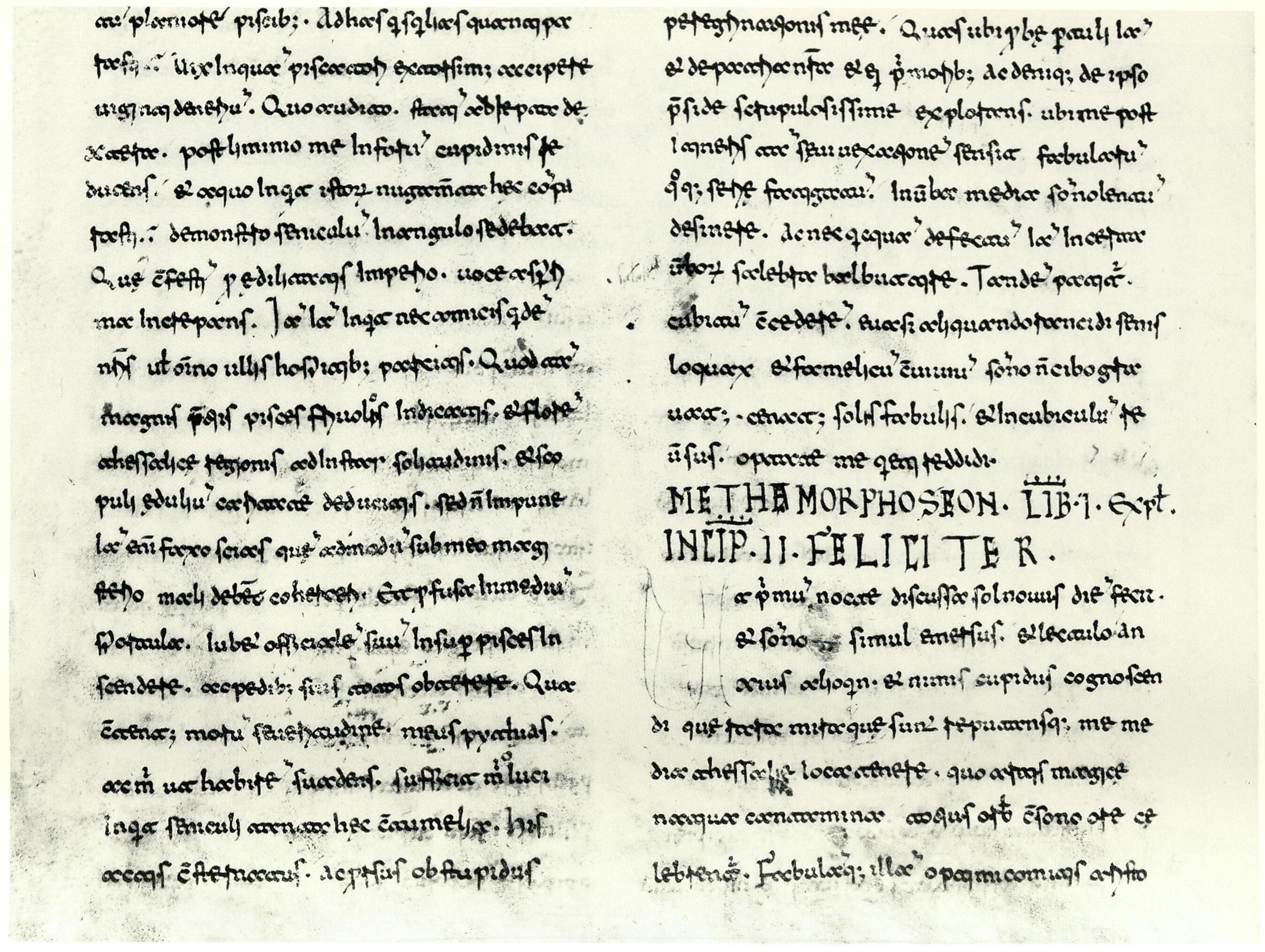 A page of the oldest manuscript of the „Metamorphoses“: Florence, Biblioteca Medicea Laurenziana, Plut. 68.2, Part 2, fol. 129v.